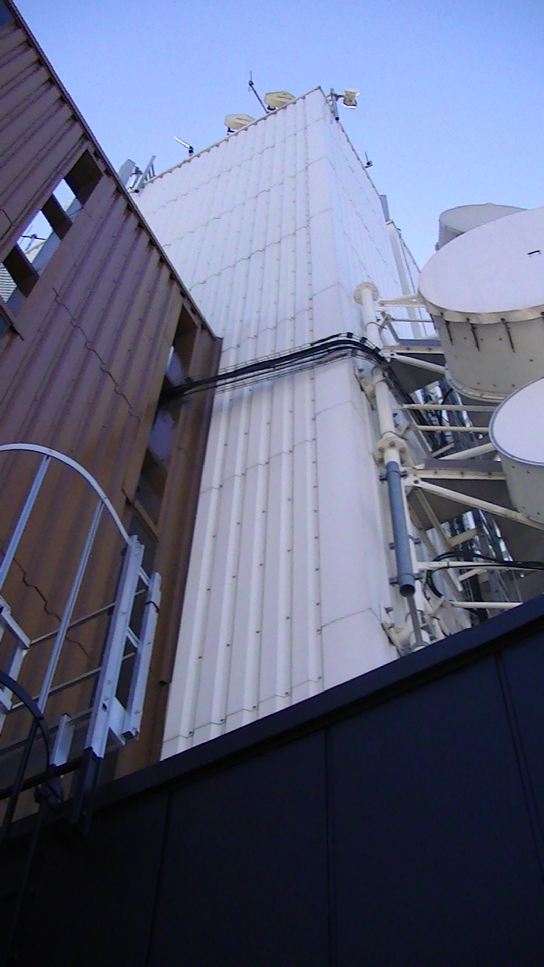 Water reservoir on top of Tour Bretagne, seen from the observation deck